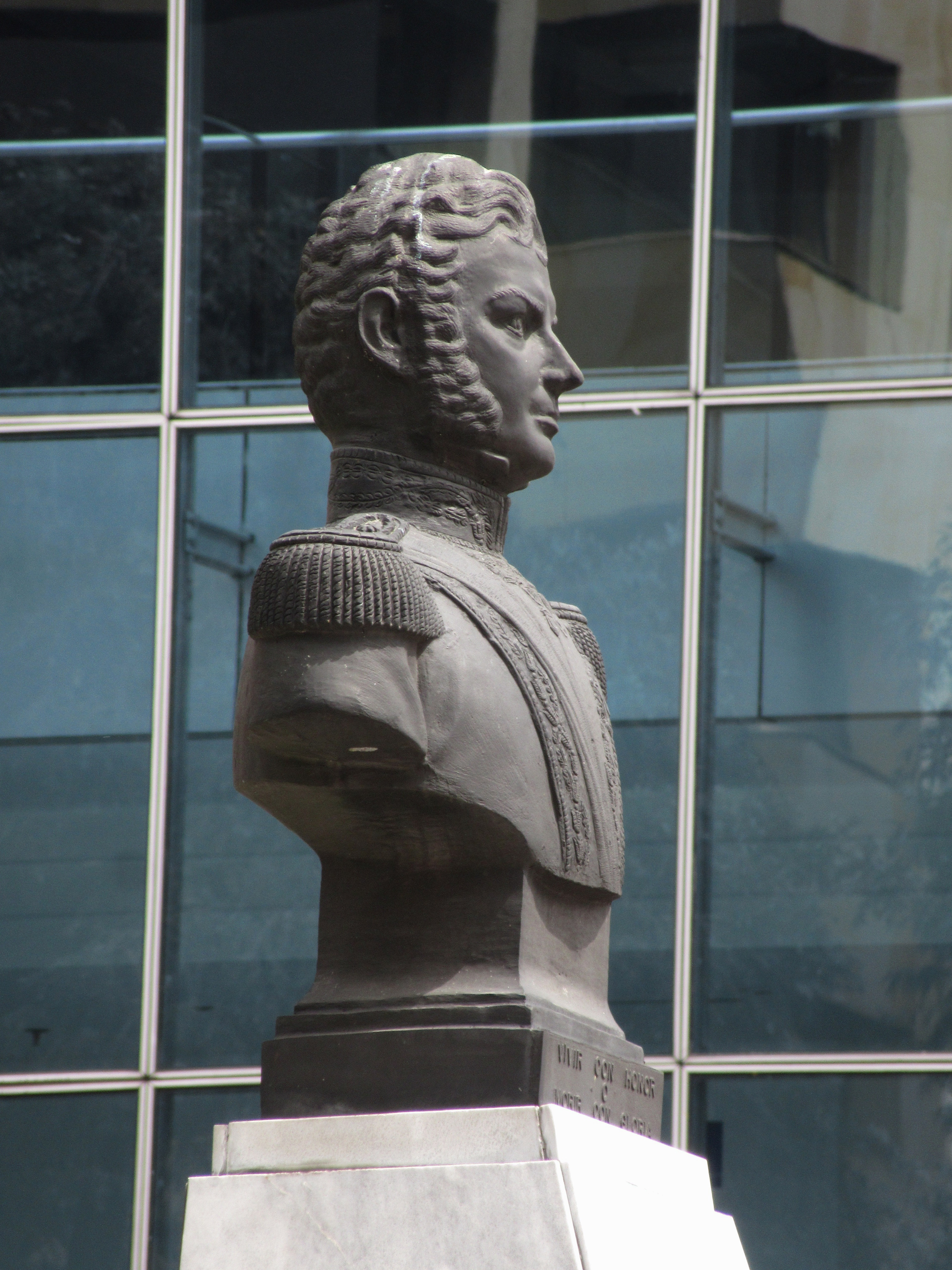 Bogotá